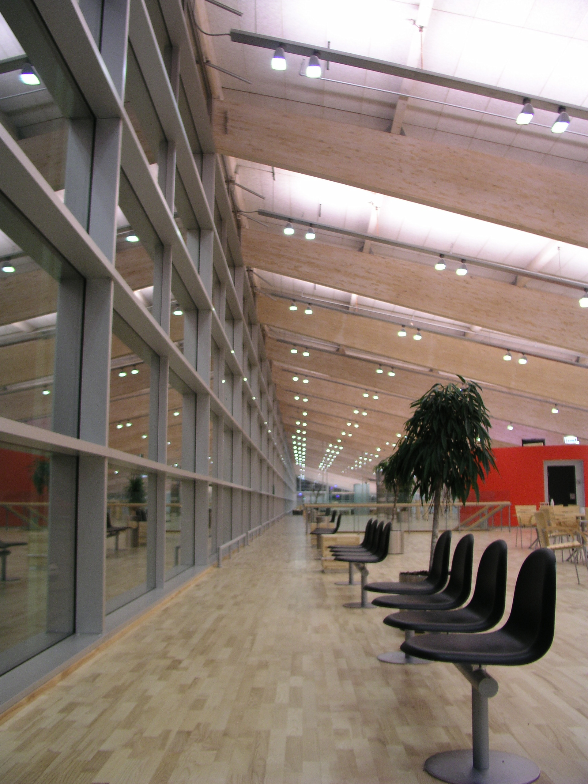 Waiting area at Aalborg Airport.